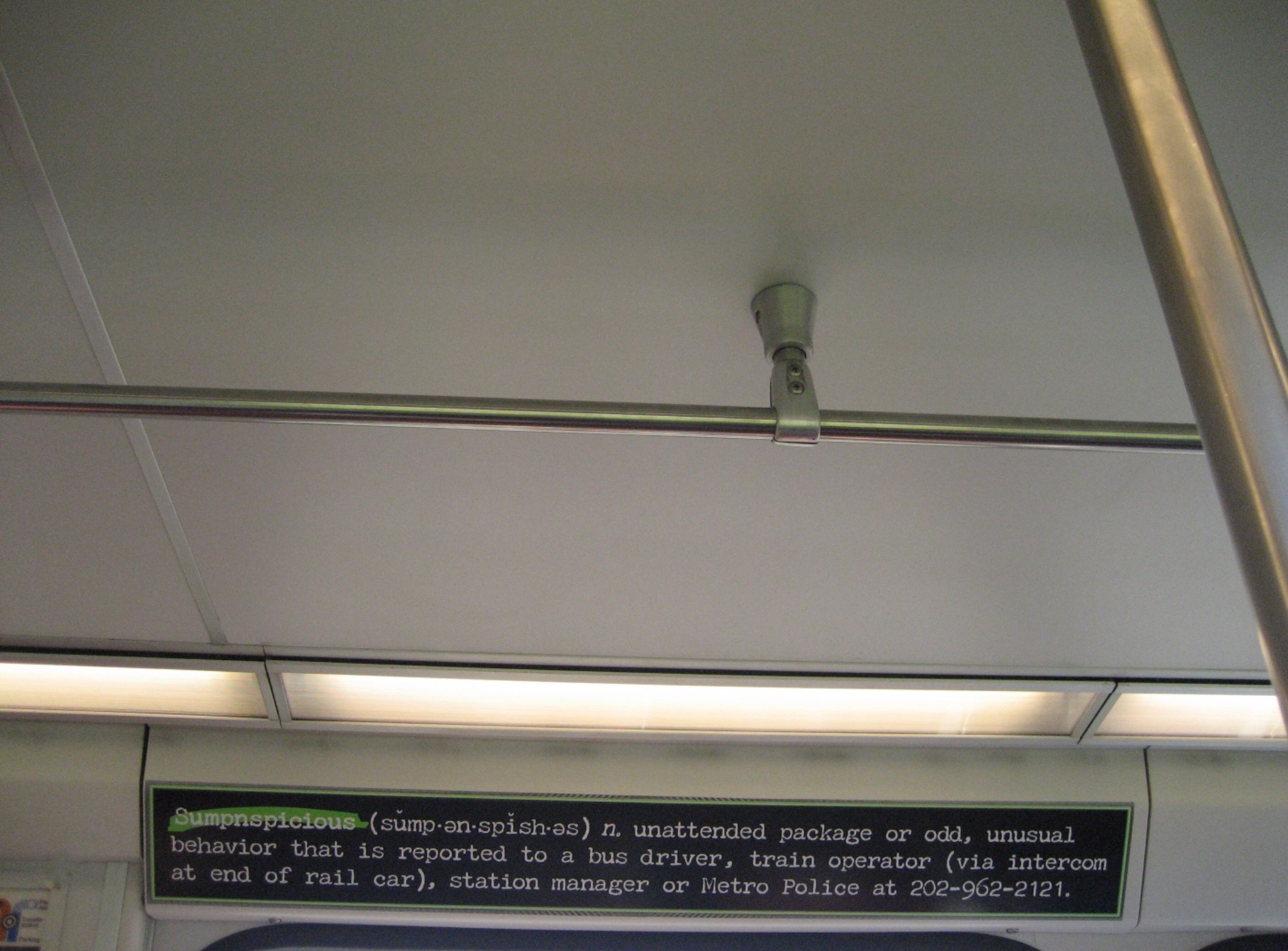 If you see it, report it. DC Metro